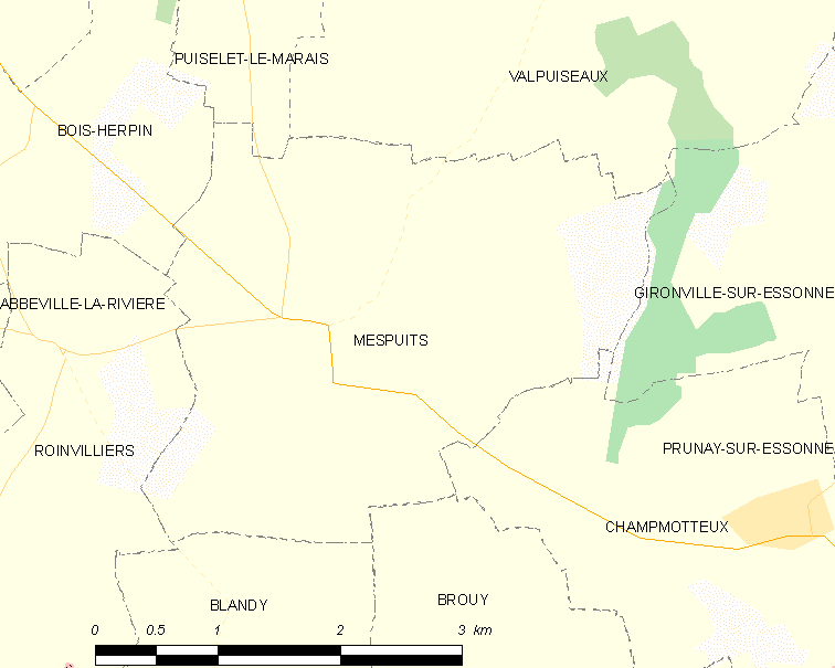 Map of French municipality Mespuits